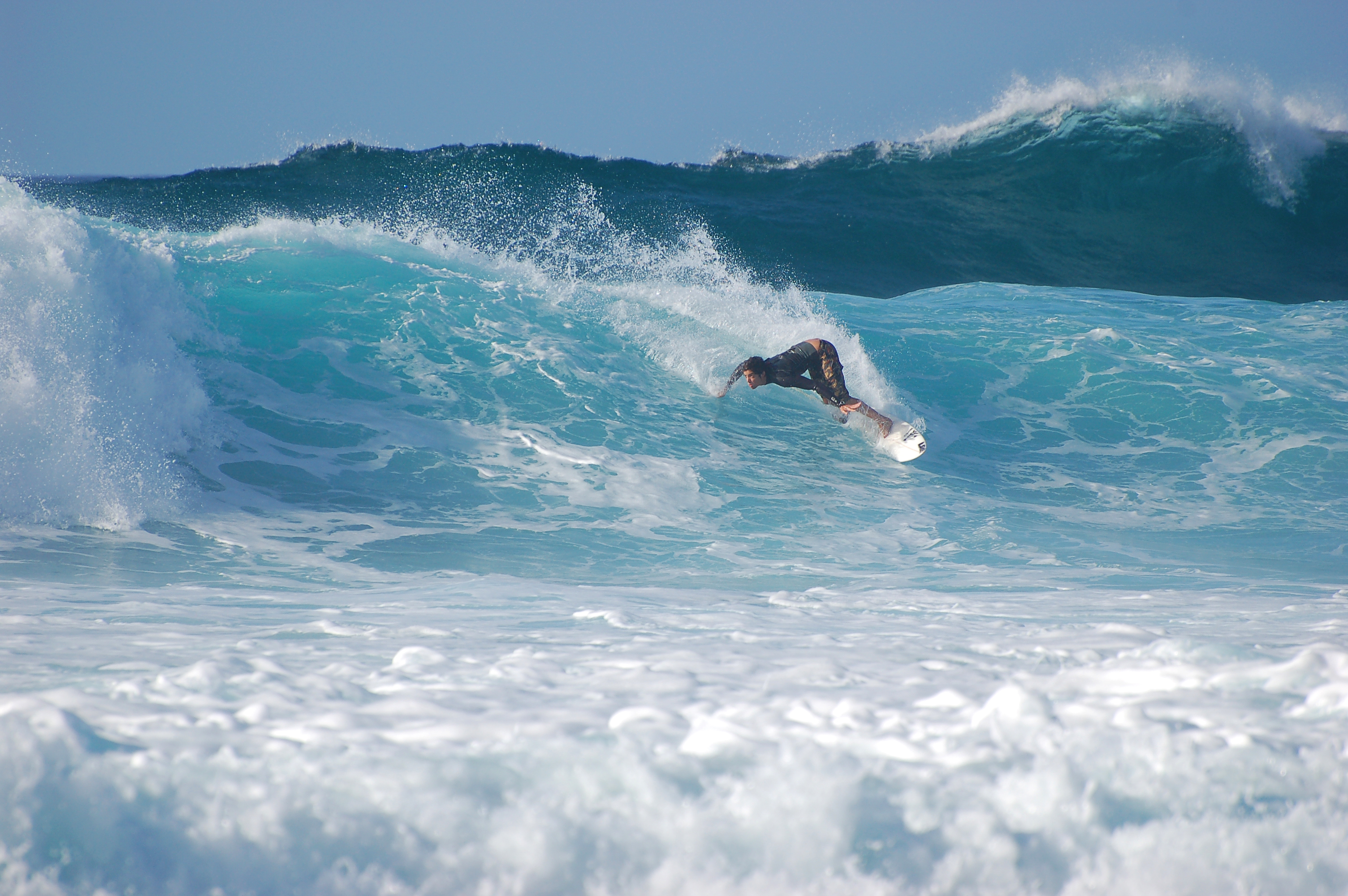 A surfer navigating a wave at Banzai Pipeline, North Shore of Oahu, Hawaii.